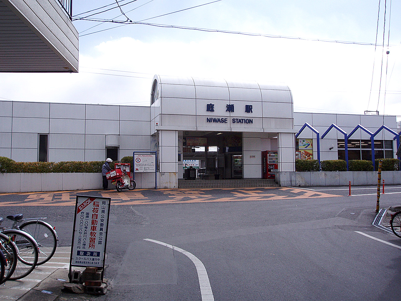 West Japan Railway Sanyo Main Line Niwase Station Building 西日本旅客鉄道 山陽本線 庭瀬駅 駅舎